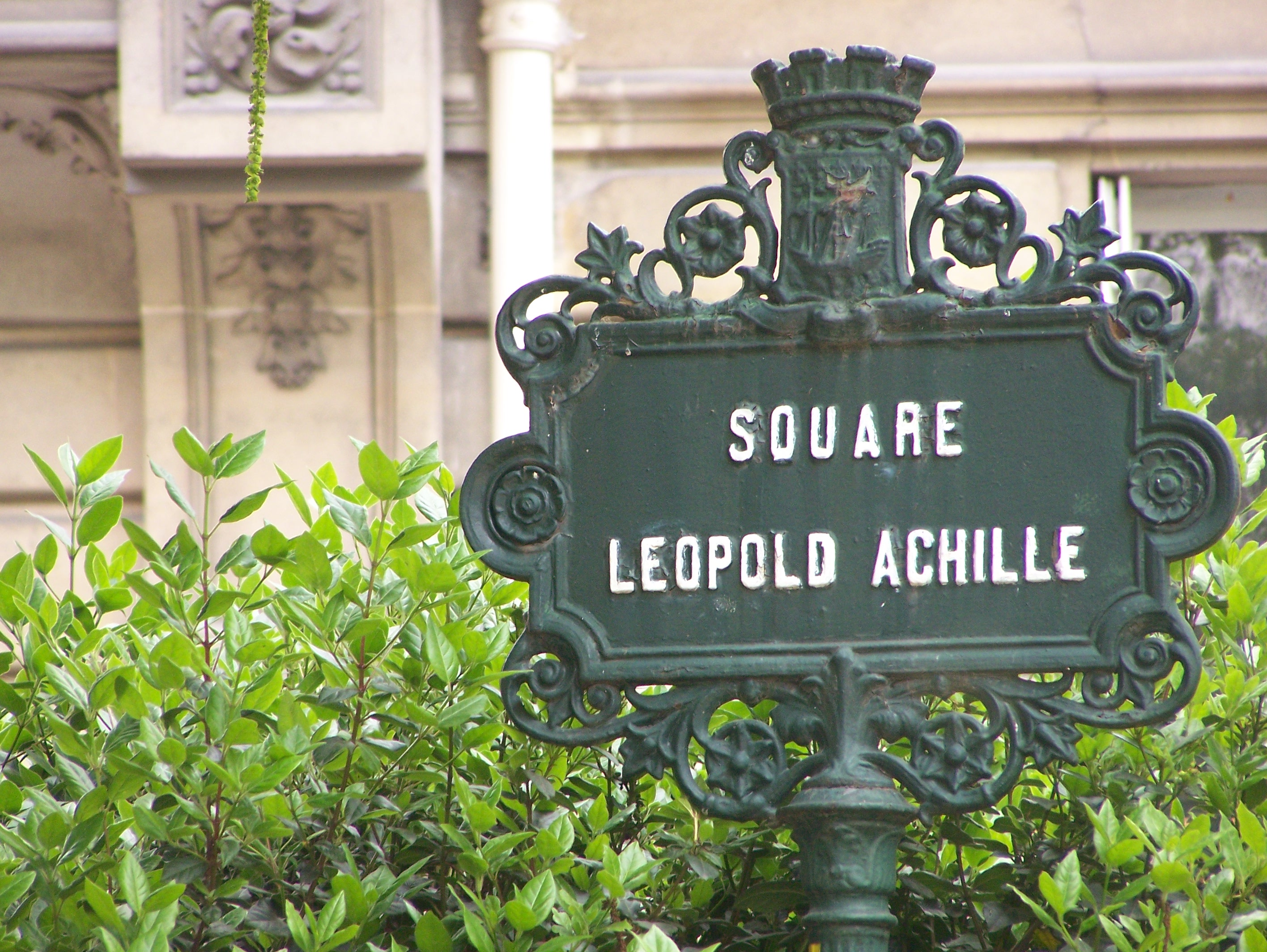 Square Léopold-Achille (Parc royal), rue du Parc-royal, Paris. Sign